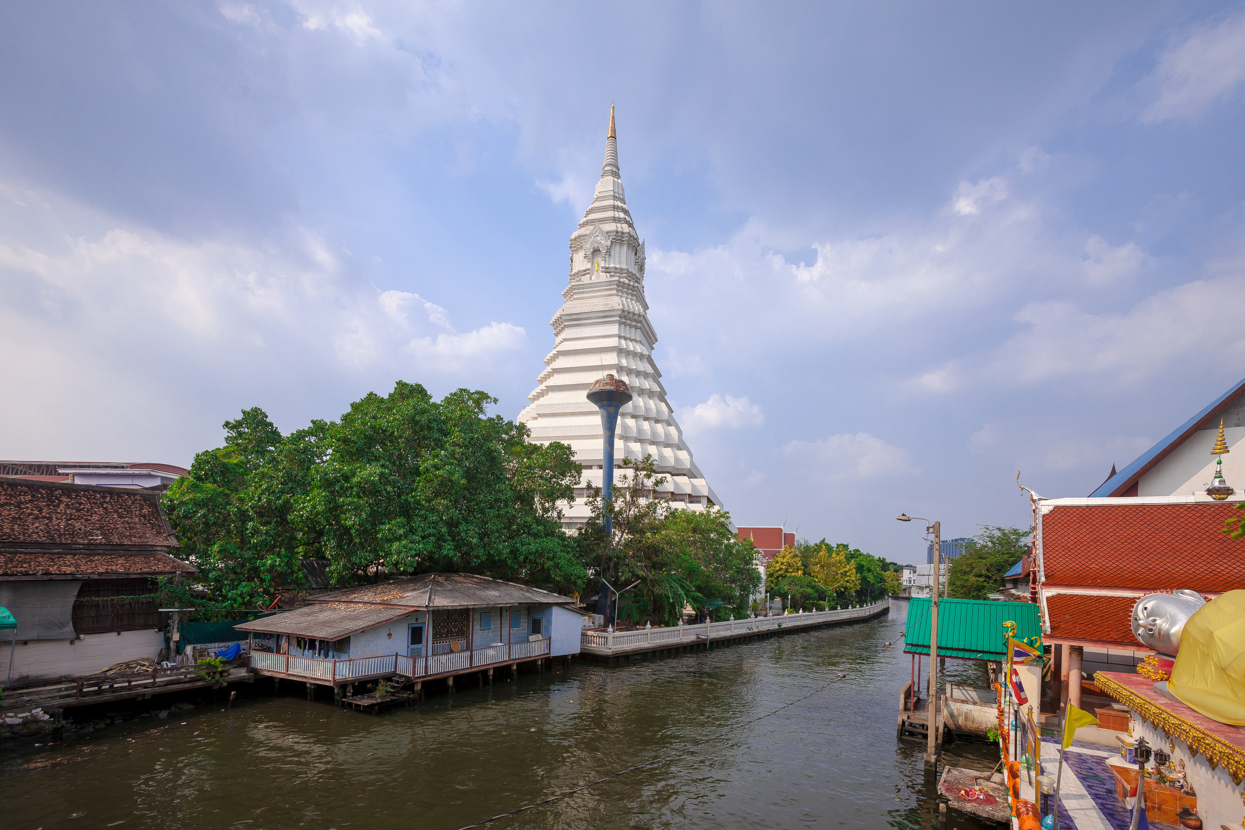 Phra Maha Chedi Maha Rajamongkol, Wat Paknam, BKK.